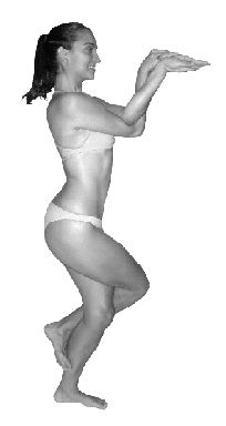 Rája Garudasana